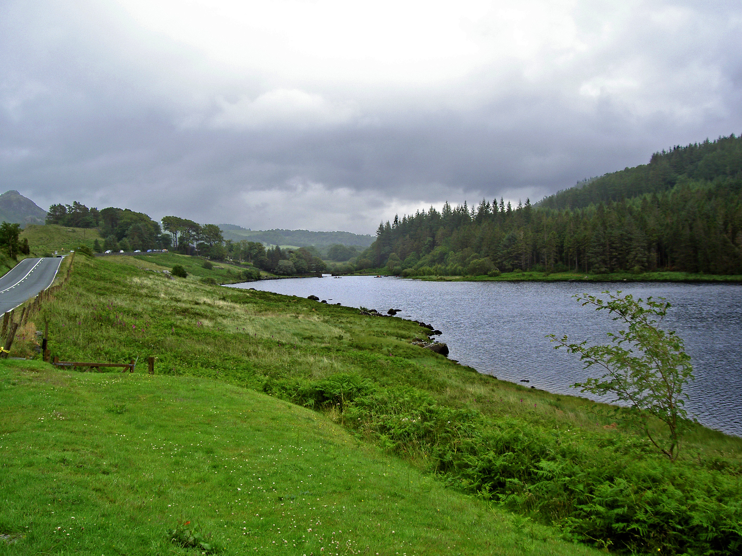 Llynnau Mymbyr With some canoes braving the rain